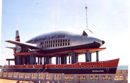 Photograph of the Kappal Matha Church in Uvari, Tamil Nadu, India